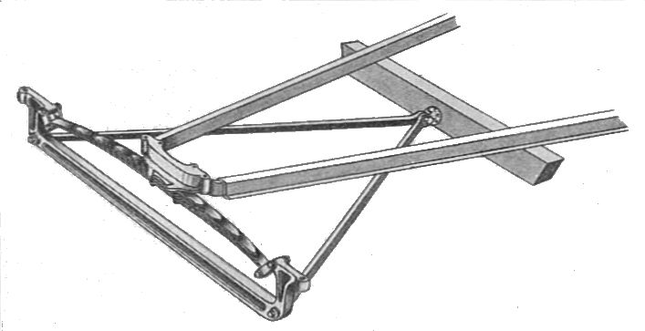 Transverse leaf spring (Manual of Driving and Maintenance).jpg